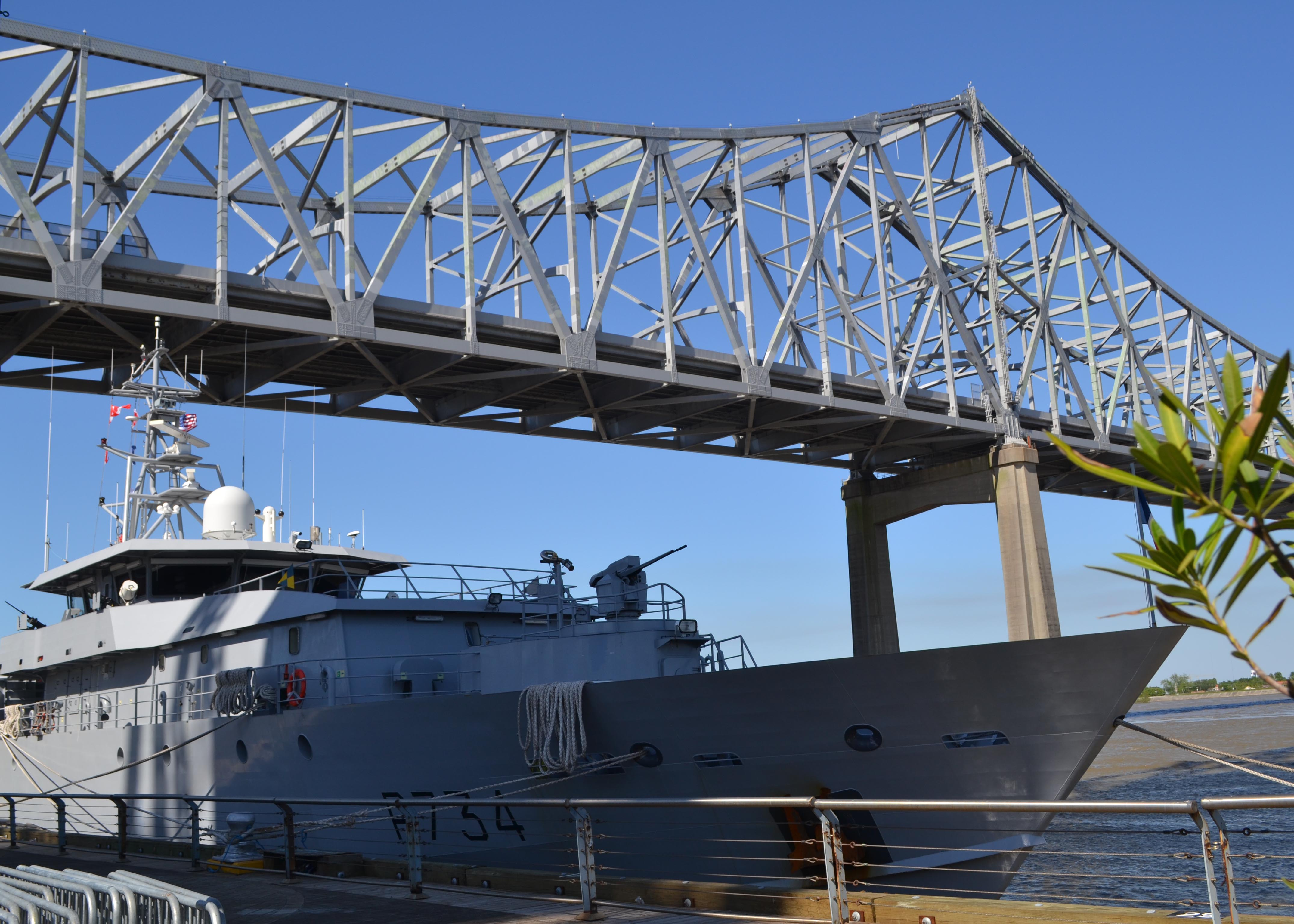 The French Marine Nationale offshore patrol vessel La Résolue (P734) is moored in New Orleans, Louisiana (USA), for Navy Week New Orleans (NWNO), on 19 April 2018.